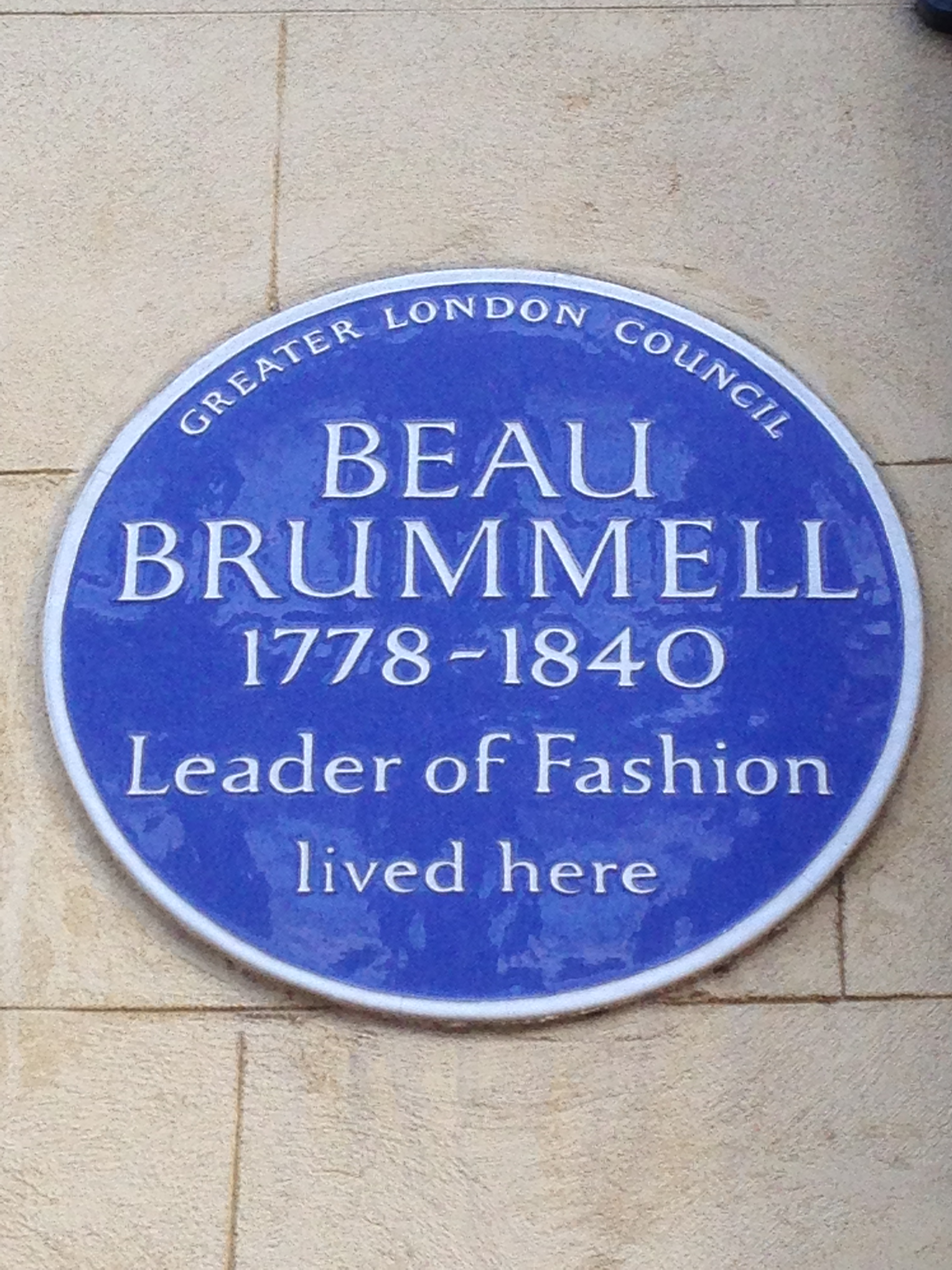 The Greater London Council blue plaque for Beau Brummell at 4 Chesterfield Street, Mayfair, London W1J 6JF in the City of Westminster.